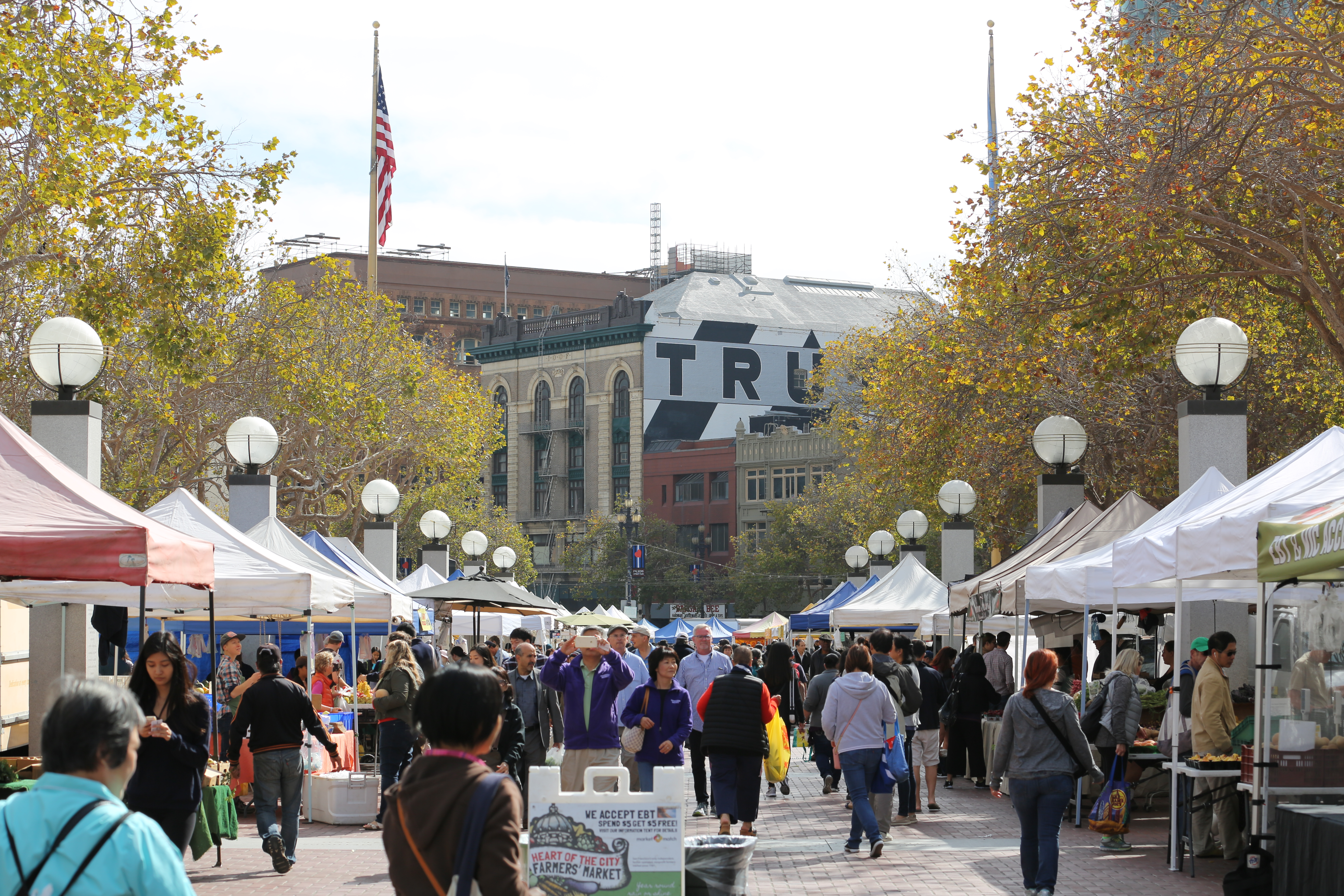 Farmer´s Market at Civic Center in San Francisco (TK2)